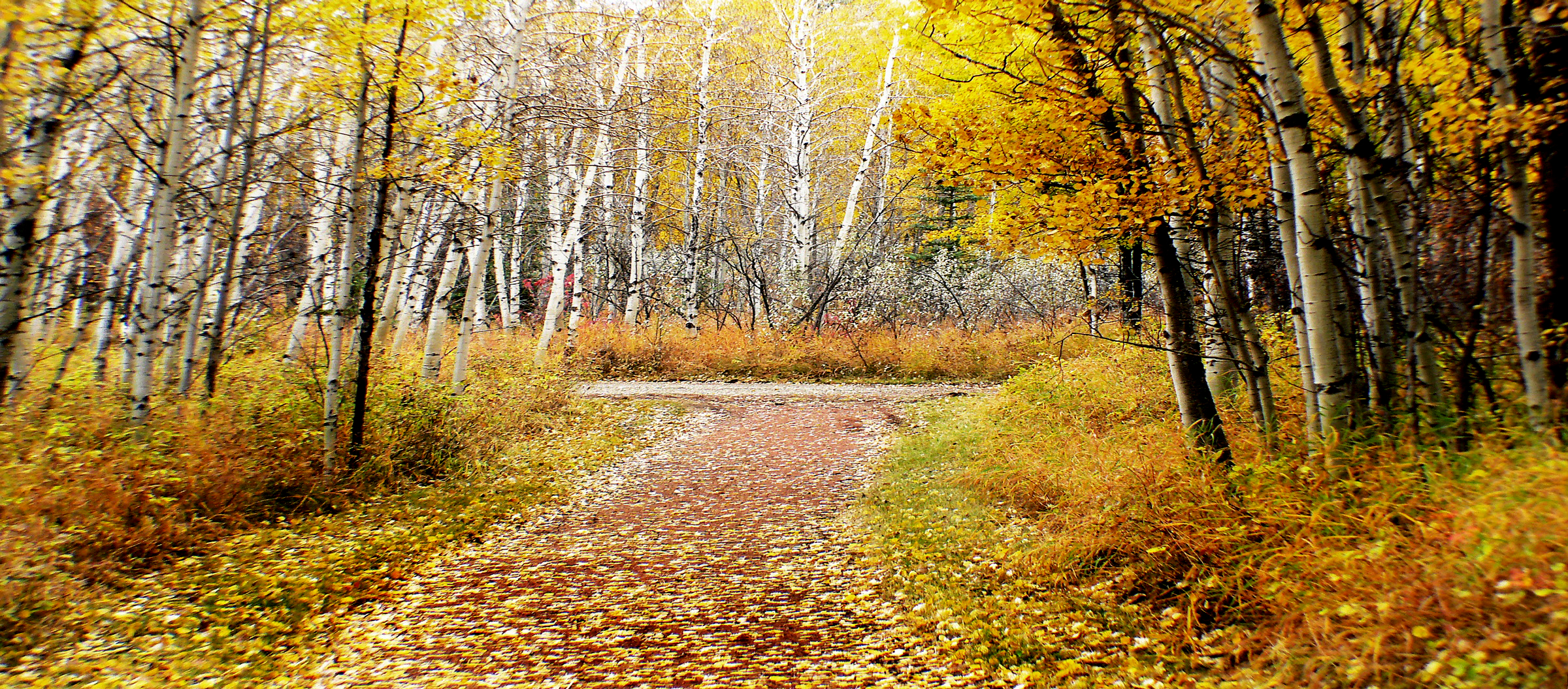 Autumn Calgary, Alberta.